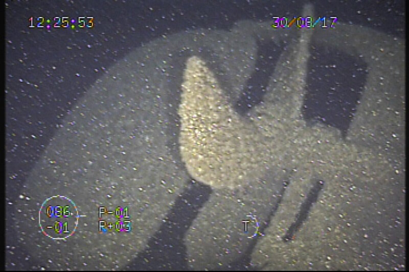 Propeller of the steamer Choctaw